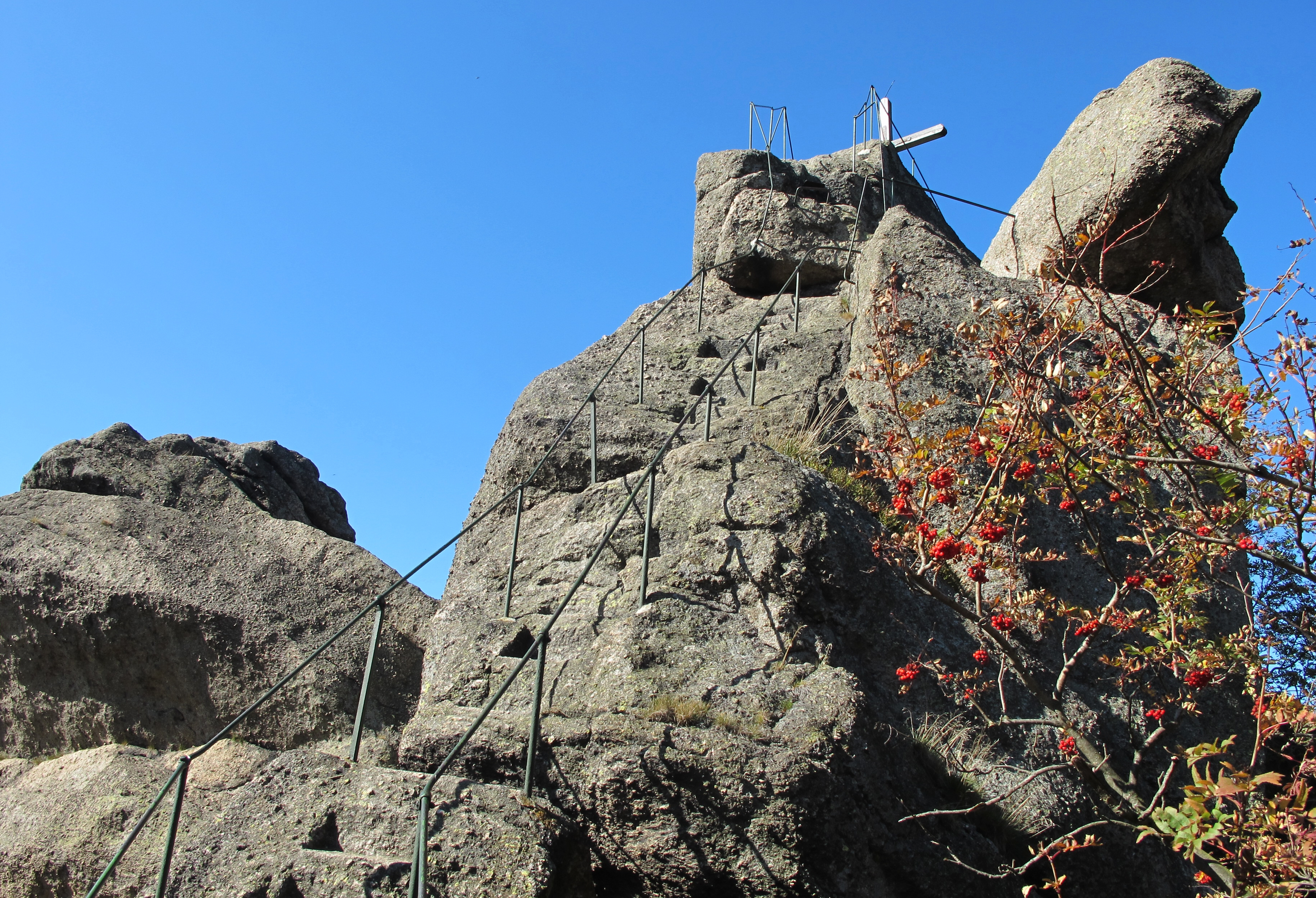 Ořešník (800 m) - one of the peaks of the Jizera Mountains, Liberec District in Czech Republic